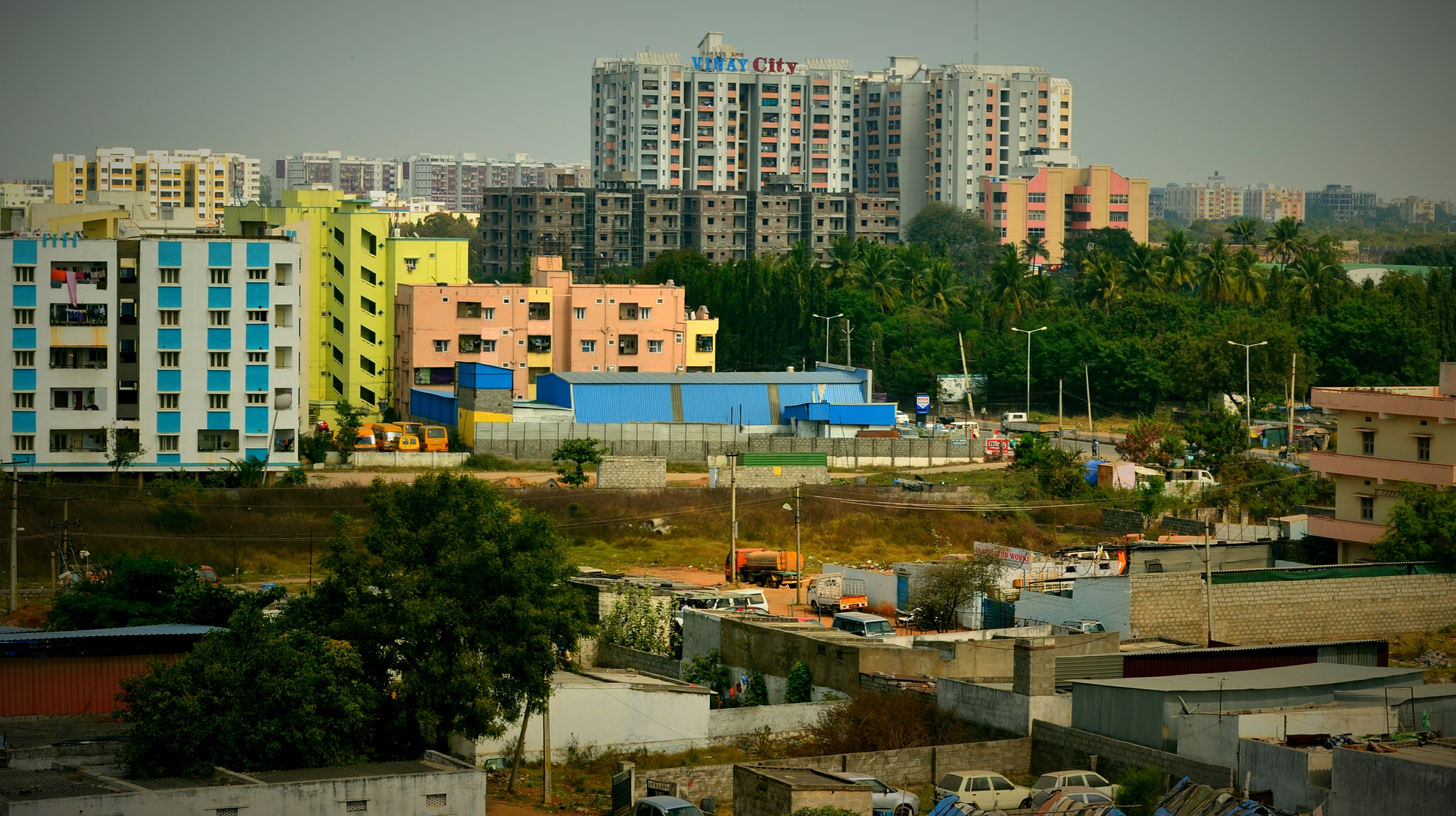 Miyapur View